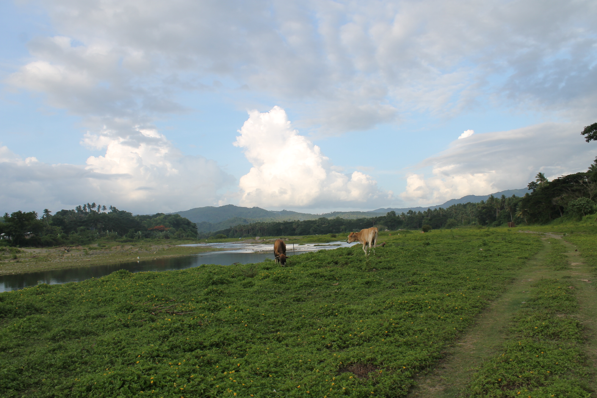 East side view of Boac River here in my village